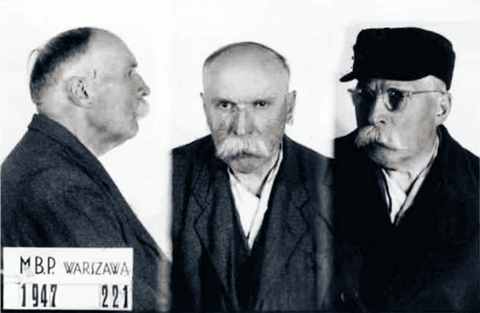 Kazimierz Pużak (1883–1950) - Polish socialist politician of the interwar period. Active in the Polish Socialist Party, he was one of the leaders of the Polish Secret State and Polish resistance. Photo after arrest by communists secret police 1947